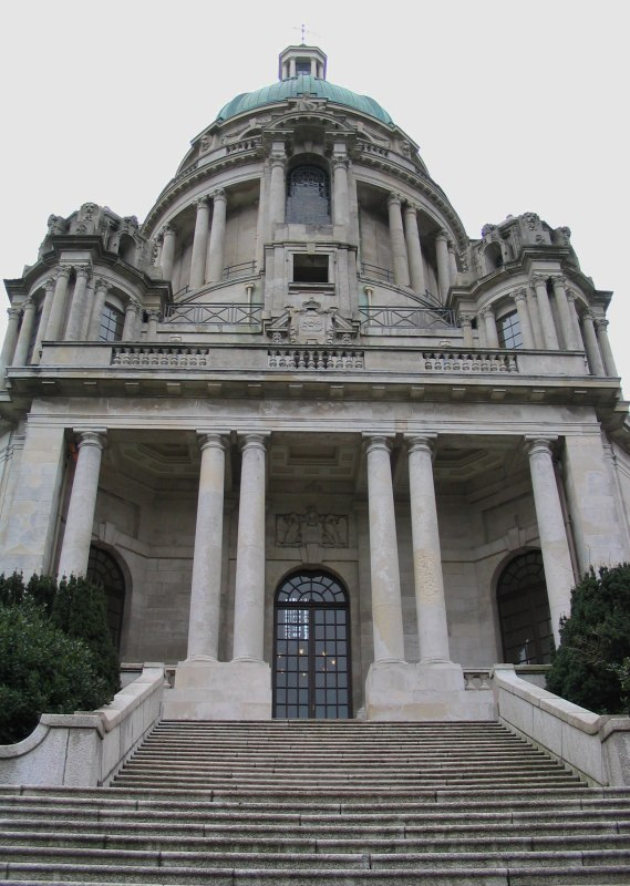 Ashton memorial - The entrance to the memorial